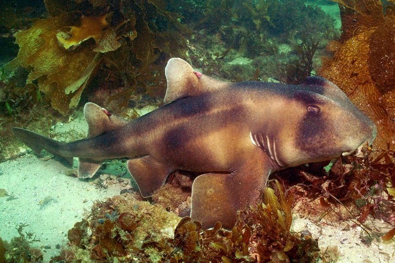 A Crested Horn Shark, Heterodontus galeatus, at Callala Creek, Jervis Bay, New South Wales.